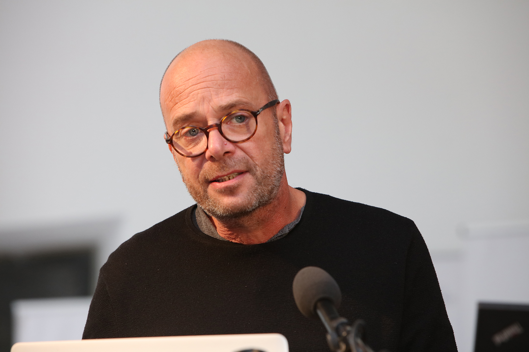 Zugang gestalten 2018